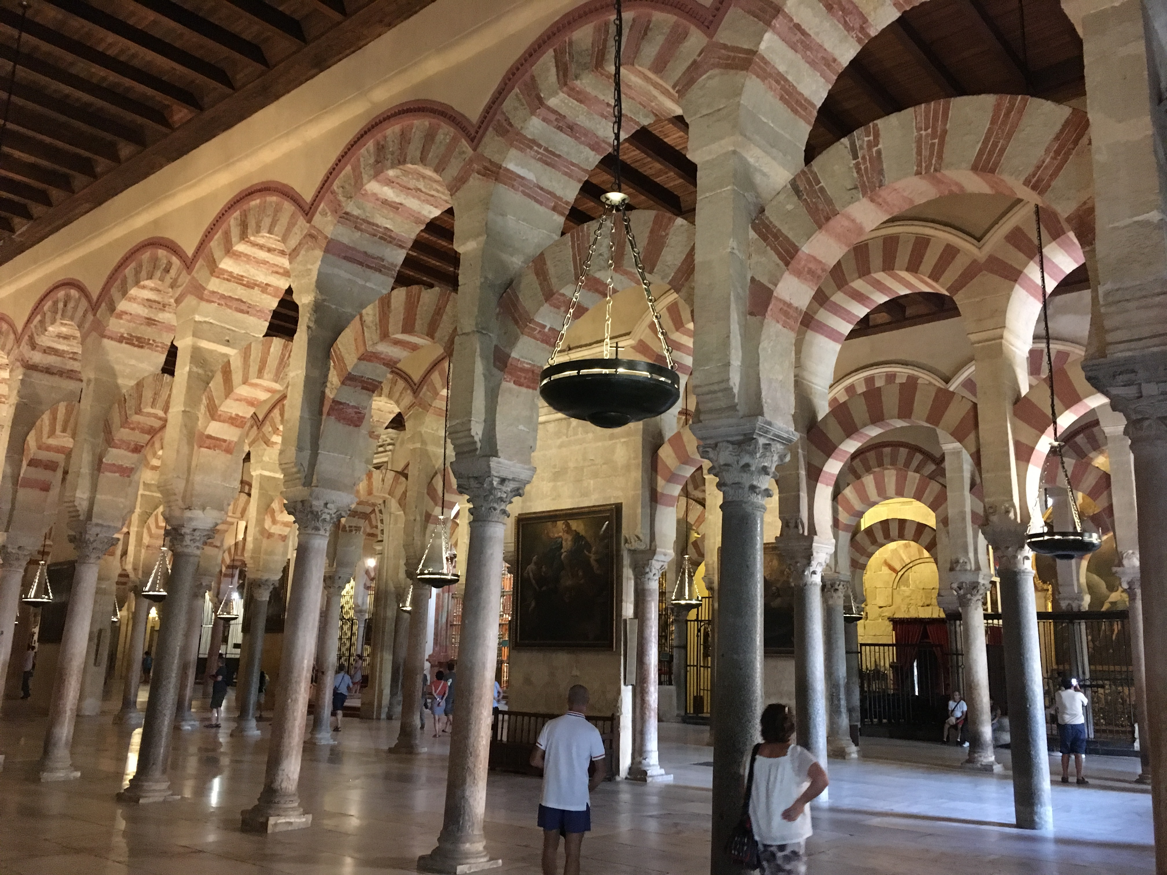 Great Mosque of Córdoba (Spain)